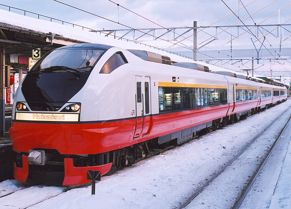 JR East E751 series EMU on a "Super Hatsukari" limited express service at Aomori Station